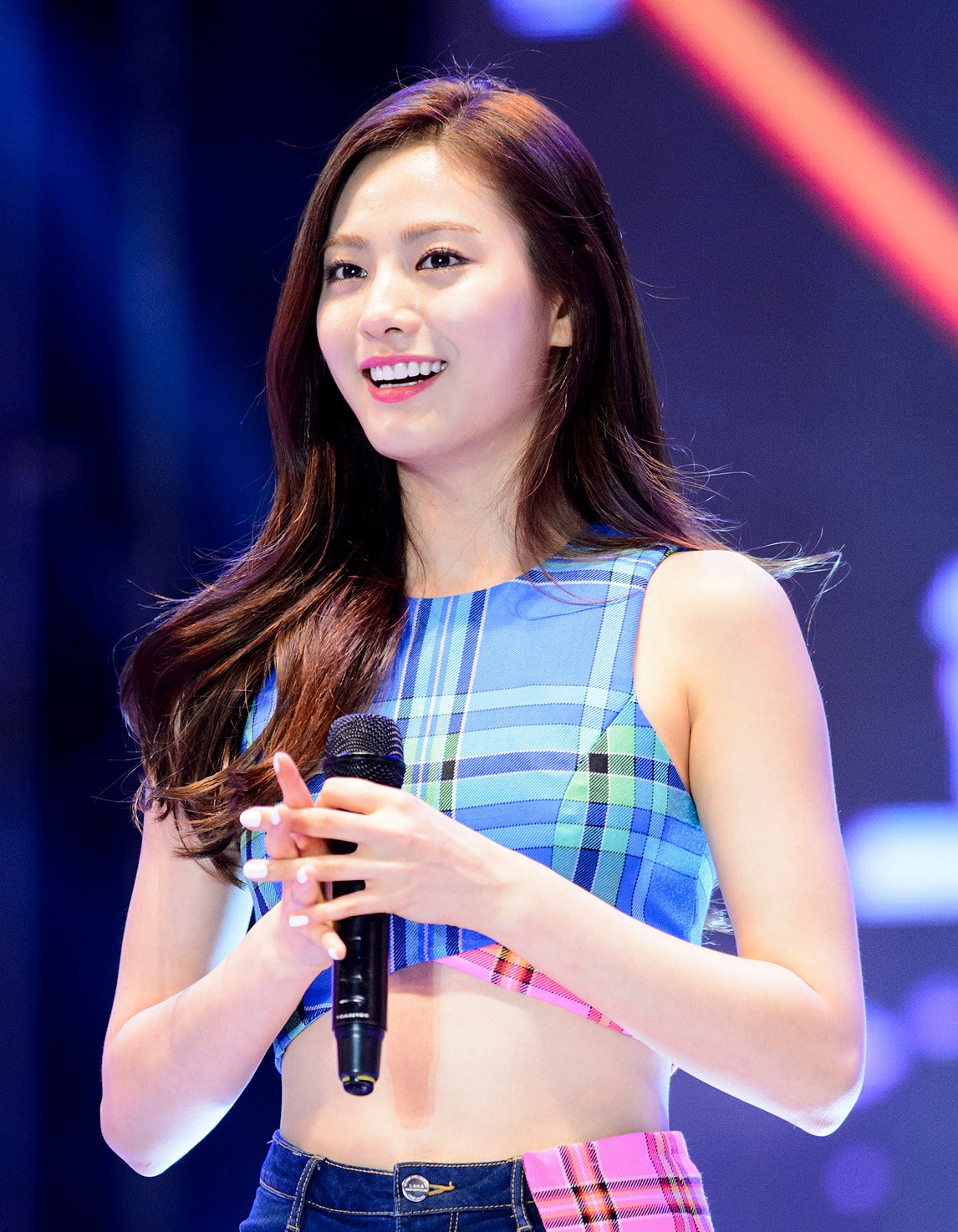 Nana performing with Orange Caramel in Suwon (crop of original photo)